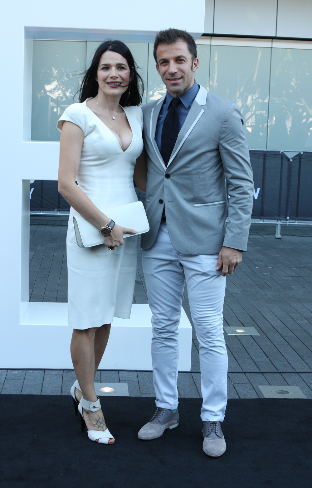 Aria Awards 2013 in Sydney Australia